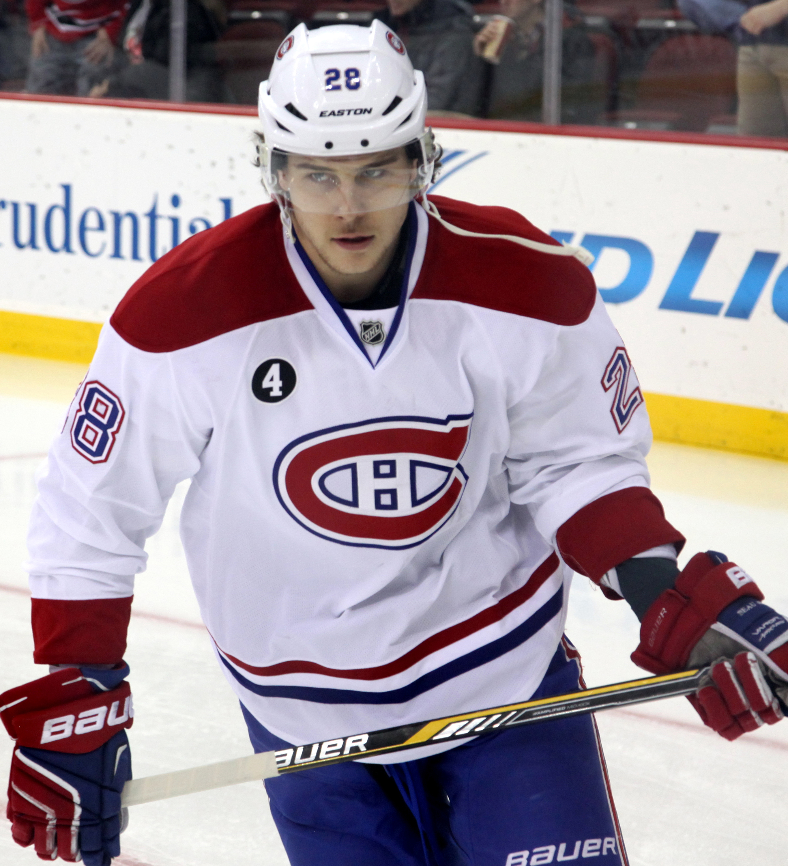 Nathan Beaulieu in January 2015.